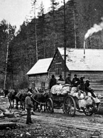 View of wagon carrying Alaska Road Commission employees, in front of Camp Comfort Roadhouse, Valdez-Fairbanks Trail, Alaska. Photographer's number J354. n.d. Photographer: P.S. Hunt.